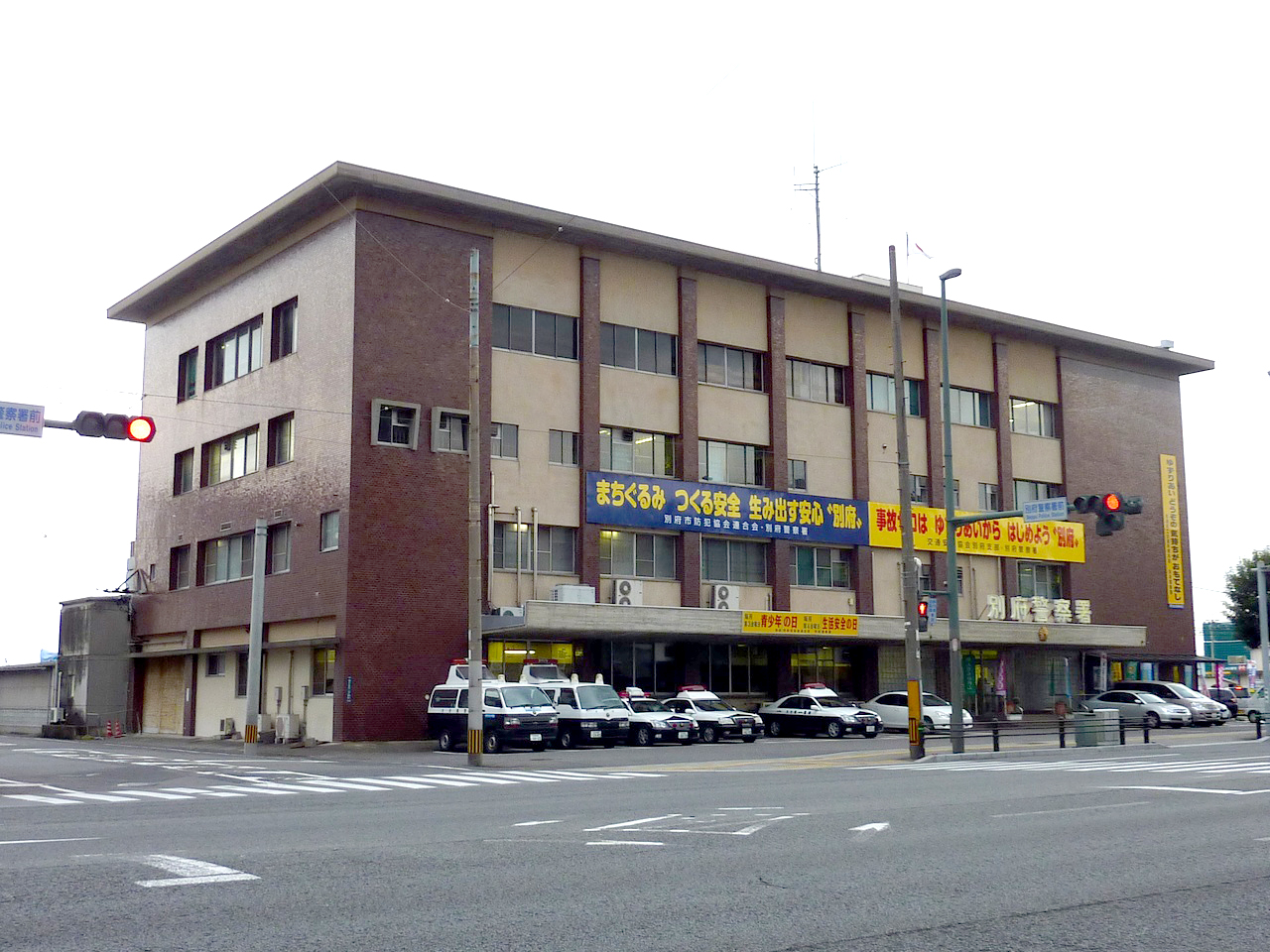 Beppu Police Station (Beppu City, Oita Prefecture, Japan)